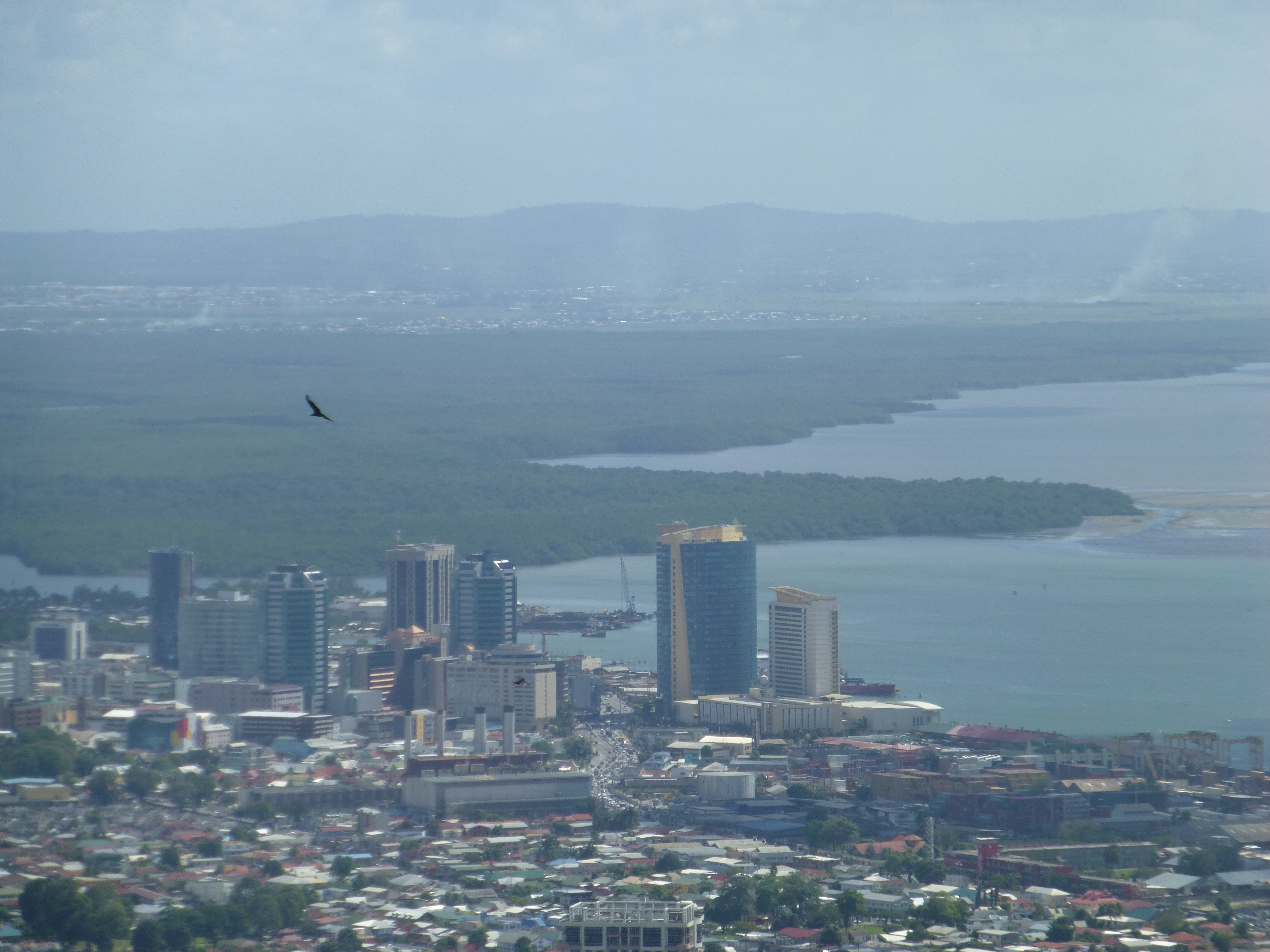 Downtown, Port of Spain, Trinidad and Tobago. In the background: Caroni Swamp. In the very far background: Central Range.